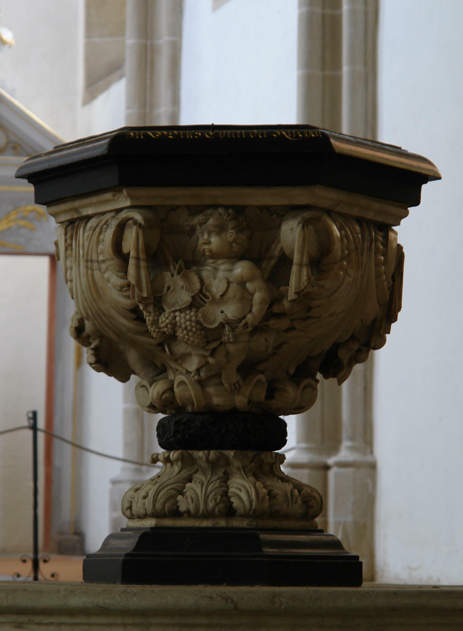 Baptismal font in the Marienkirche, Torgau